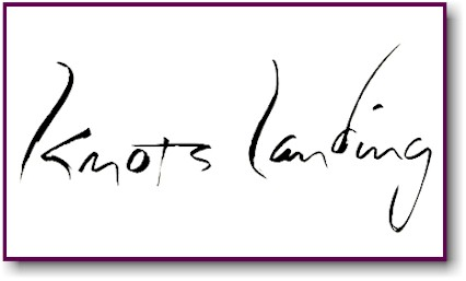 Logo for the US television show Knots Landing